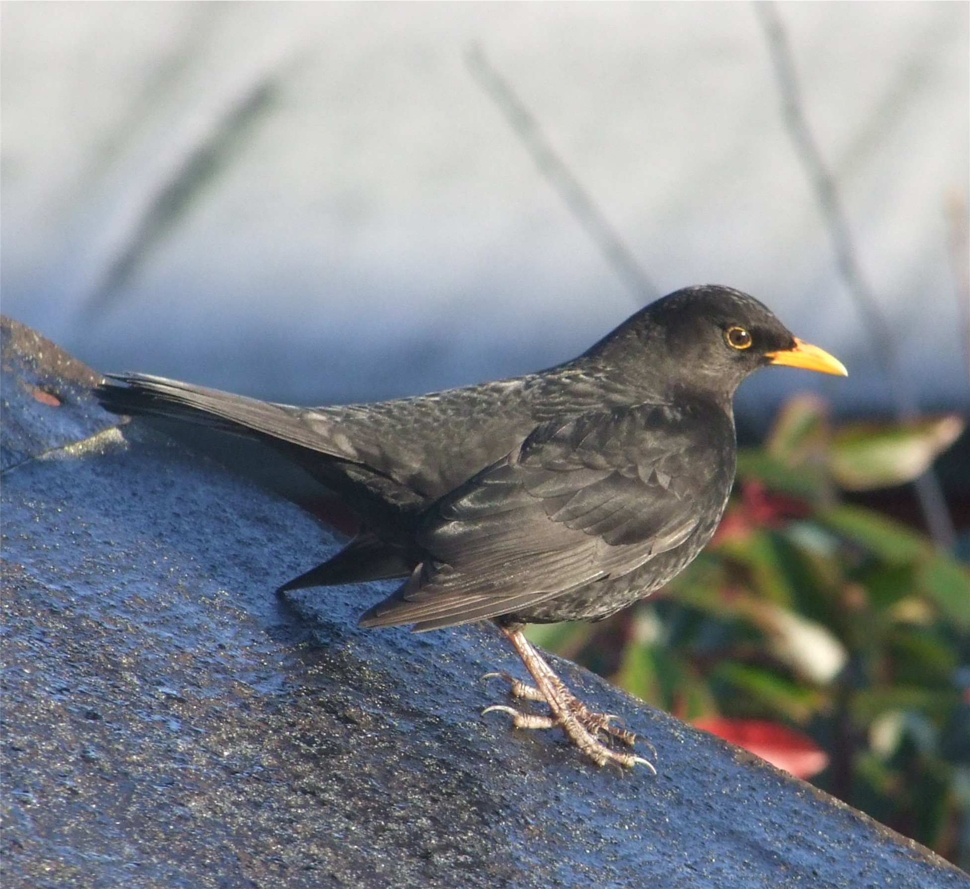 Visitors to my garden in Staffordshire Moorlands